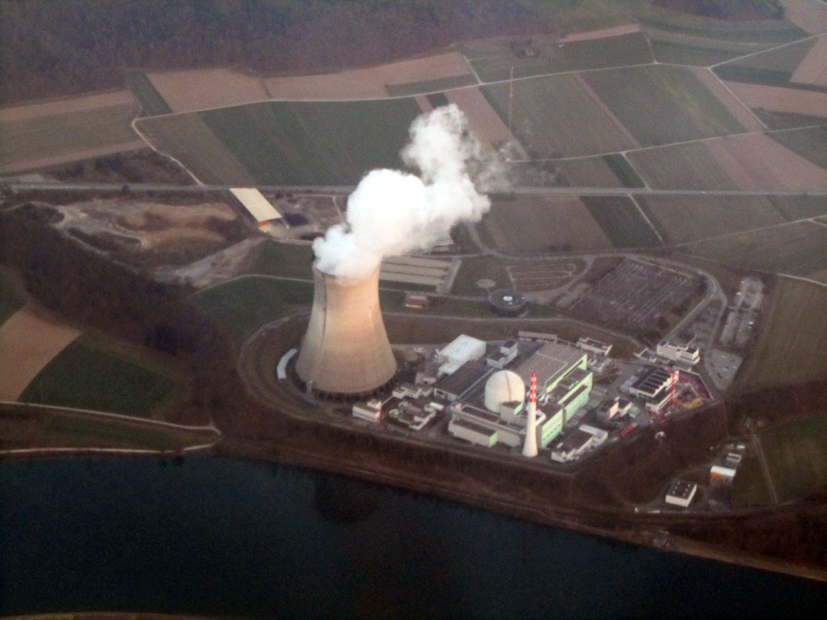 Nuclear Power Plant Leibstadt